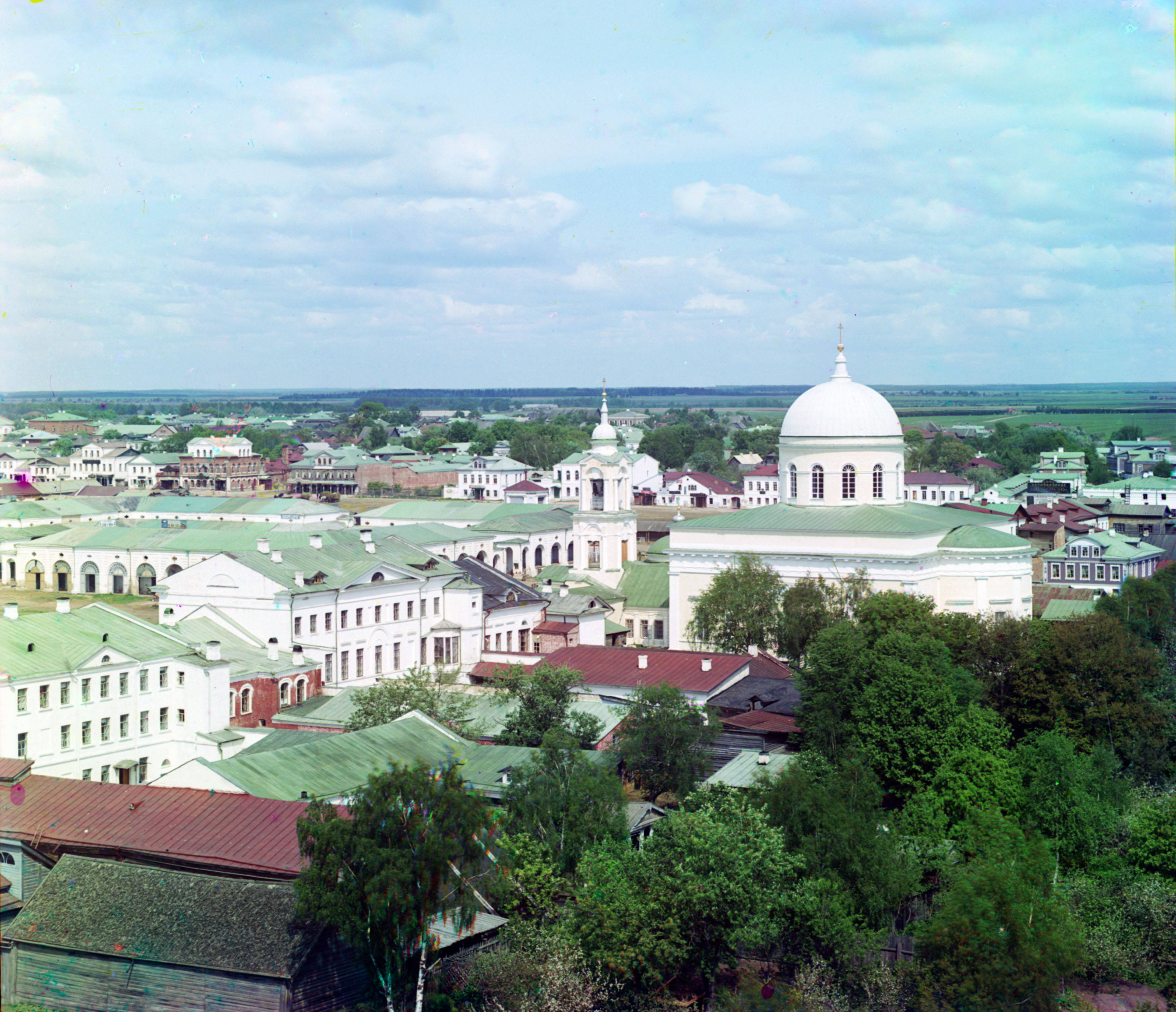 City of Rzhev. Prince Fedor's side [of the city]. Nativity of Christ Cathedral. Taken from the bell tower of the Assumption Cathedral